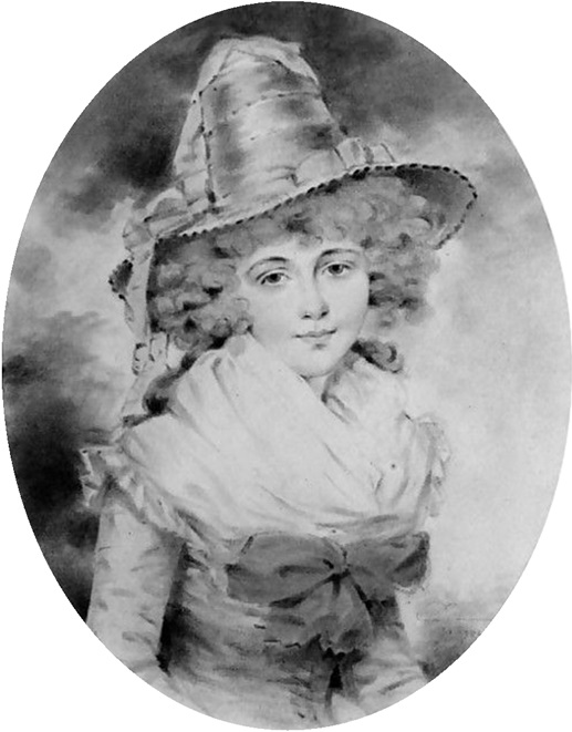 Portrait of Frances Finch, Countess of Dartmouth